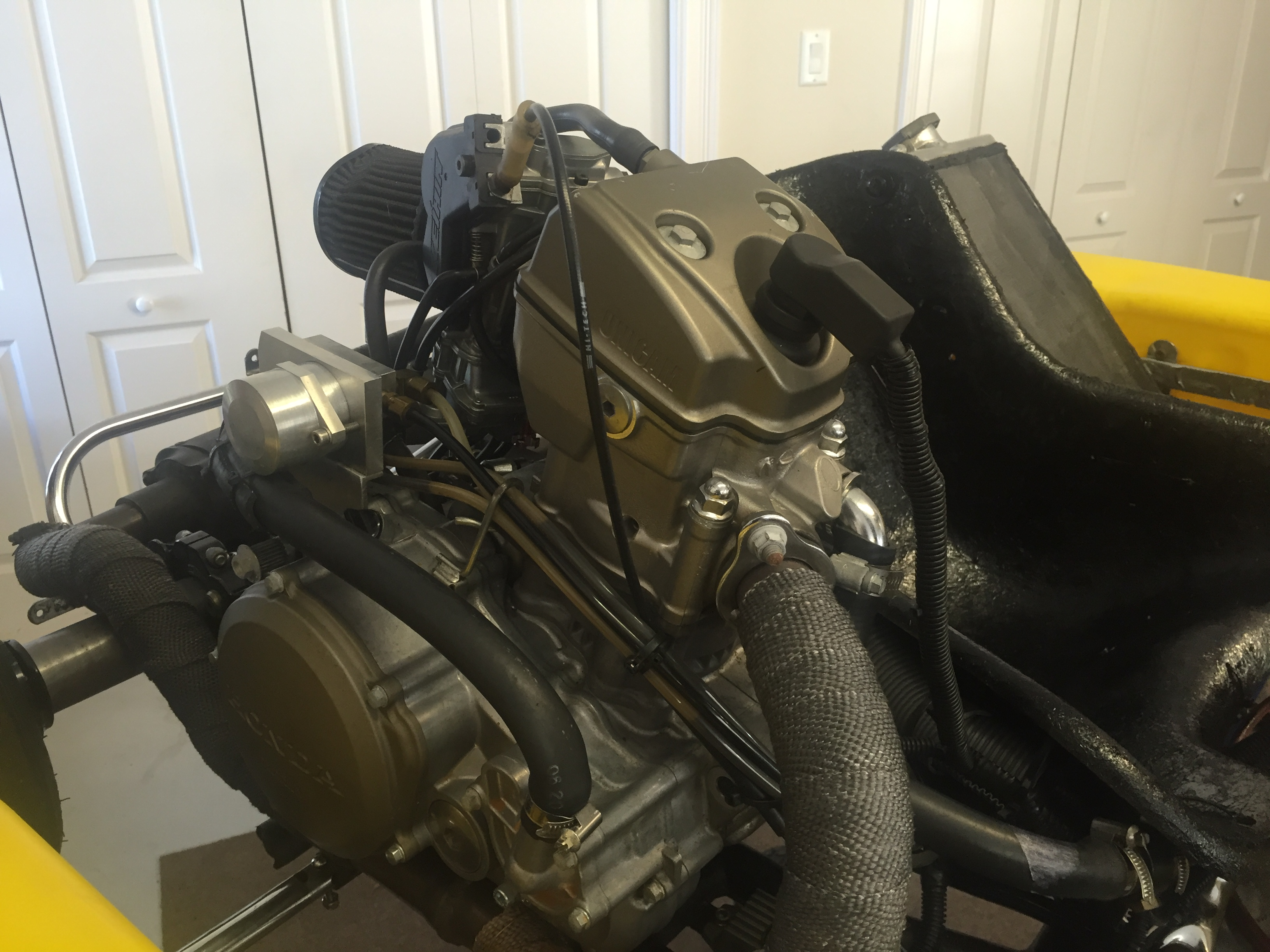 The engine on my shifter kart. It's from a Honda crf250x model. It has a 5 speed transmision.